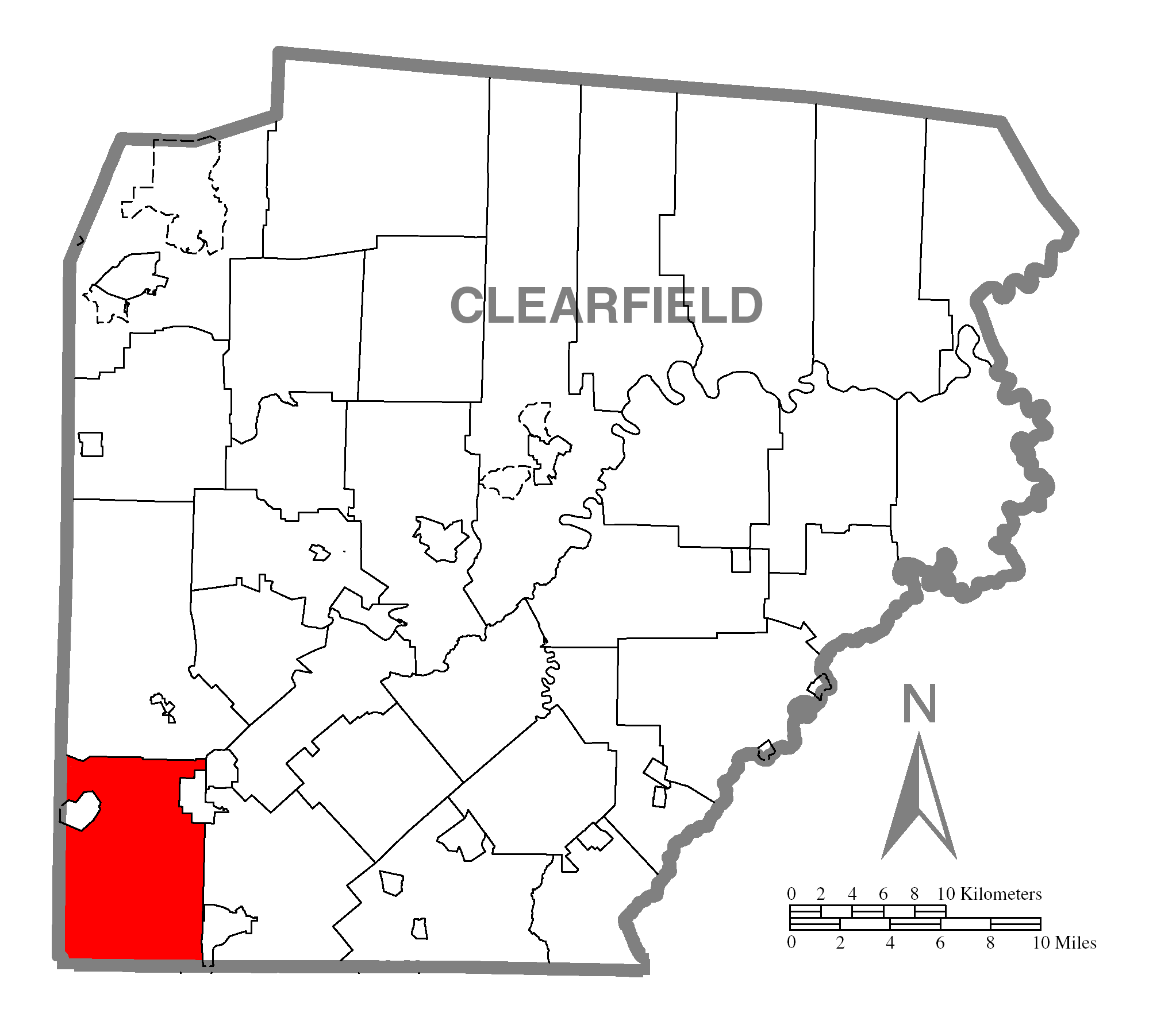 A map of Clearfield County showing Burnside Township, Pennsylvania (alternate) highlighted on the map.